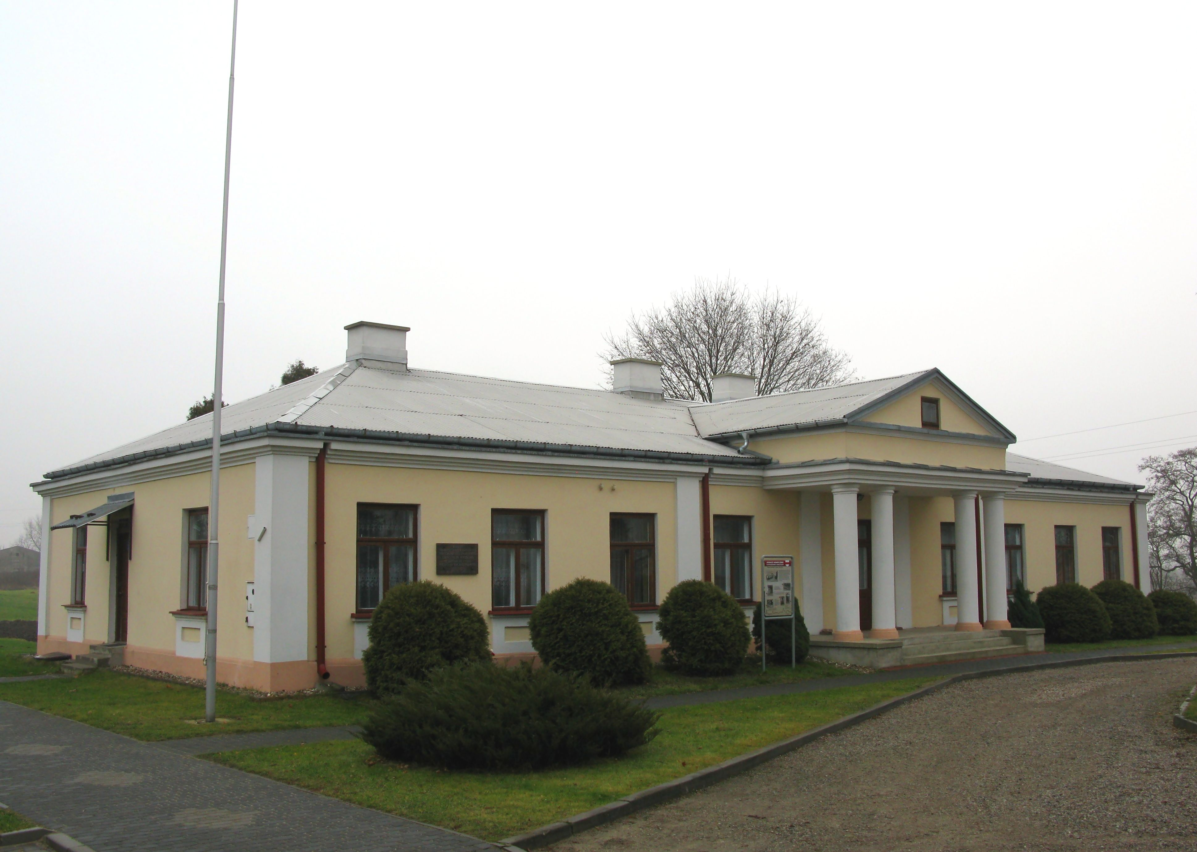 Rectory in Wyszków, Poland, HQ of the Provisional Polish Revolutionary Committee during War 1920